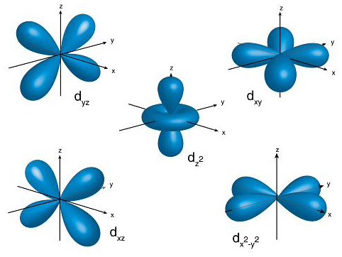 The probability patterns for the d orbitals. Note, that in order to represent actual orbitals with finite probability density cutoff, the lobes shouldn't reach to the nucleus. As they do, it seems that the radial wavefunction is not properly taken into account. So these “orbitals” are rather just spherical harmonics, which represent the directionial part of the wavefunctions.